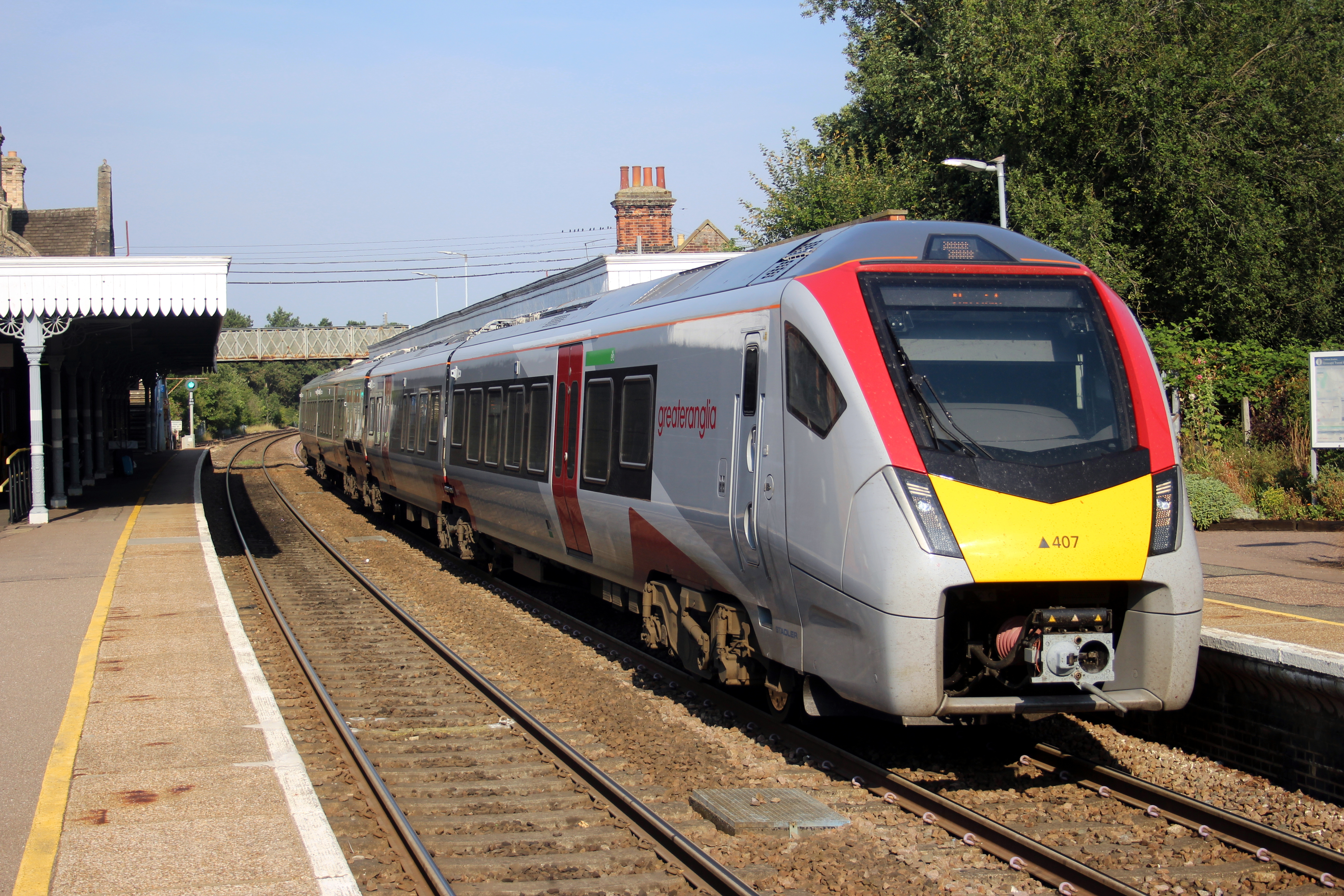 A bi-mode four car Stadler FLIRT for Greater Anglia stops at Thetford, on a service from Stansted Airport to Norwich via Cambridge.